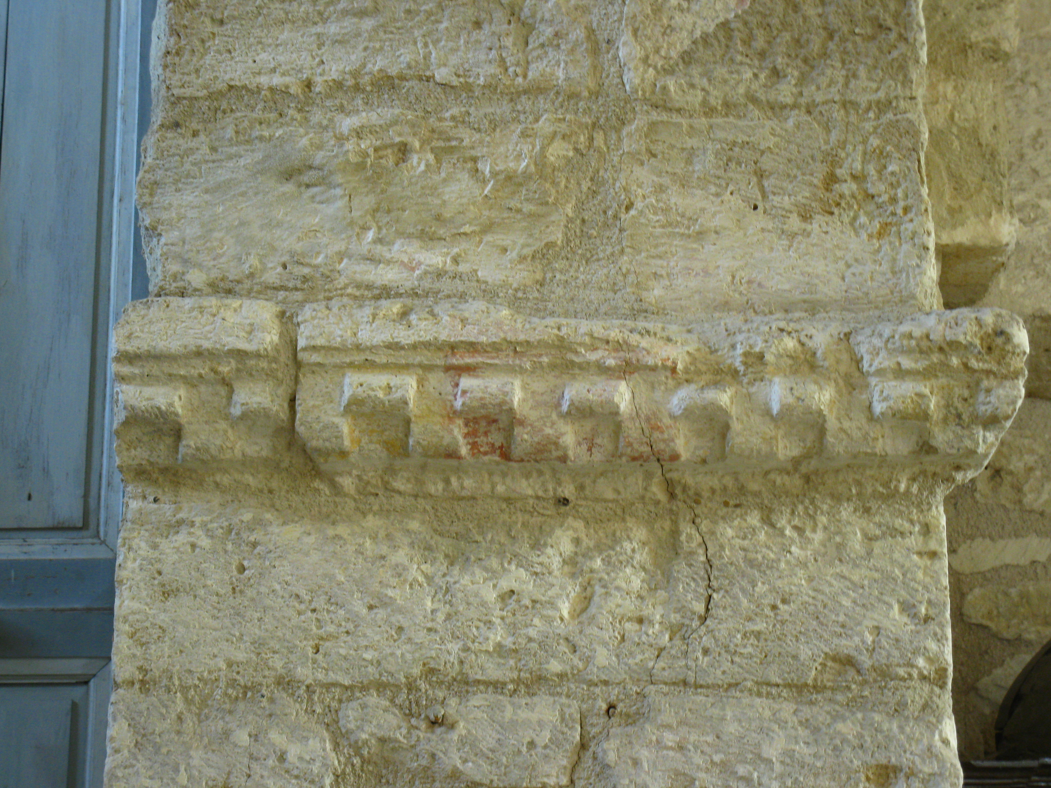 Abacus from the Saint-Laurent church in Ville-en-Tardenois (France, 51)